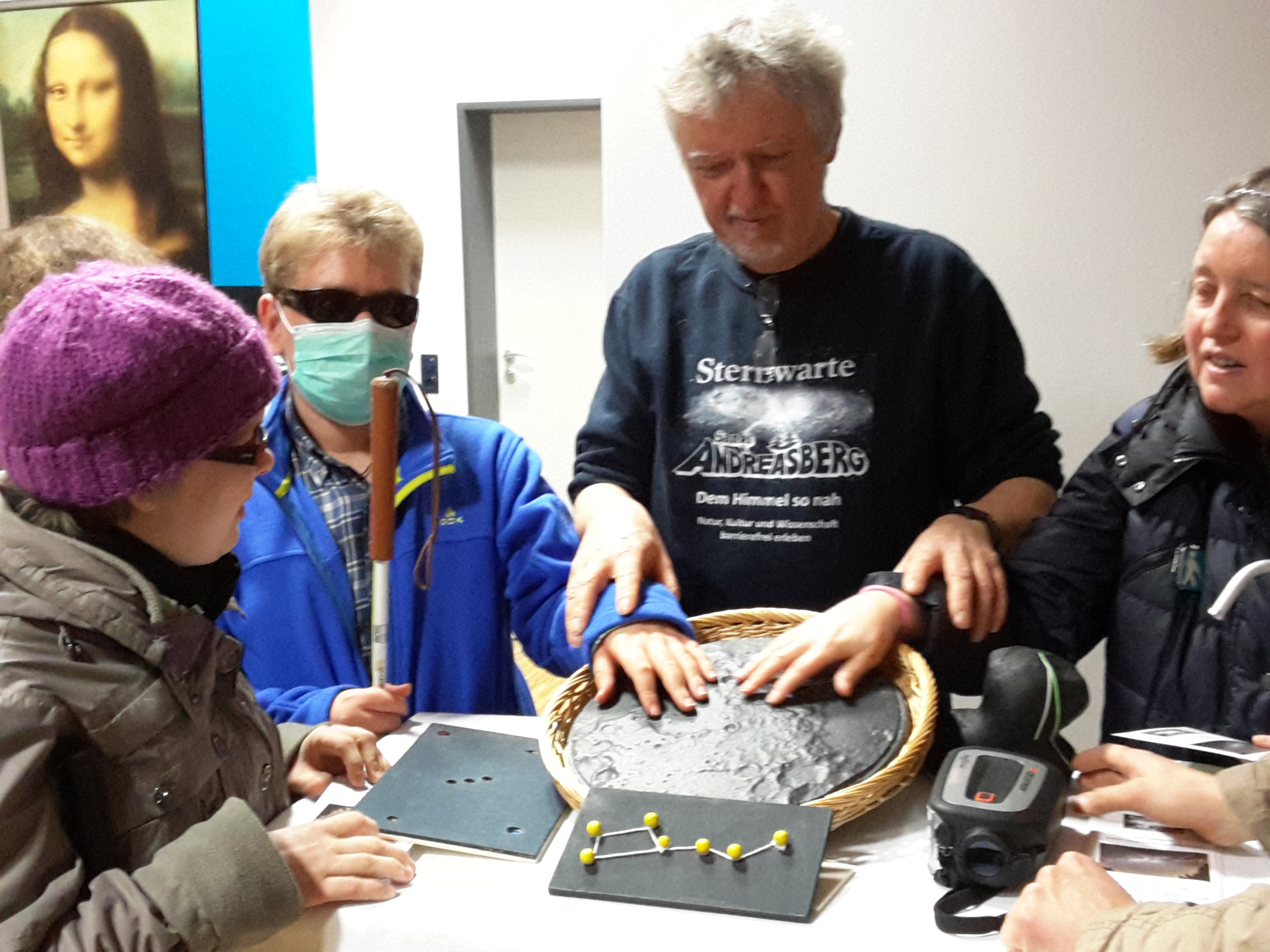 Haptic star charts and model of the moons surface for people with impaired seeing at the Sankt Andreasberg Observatory